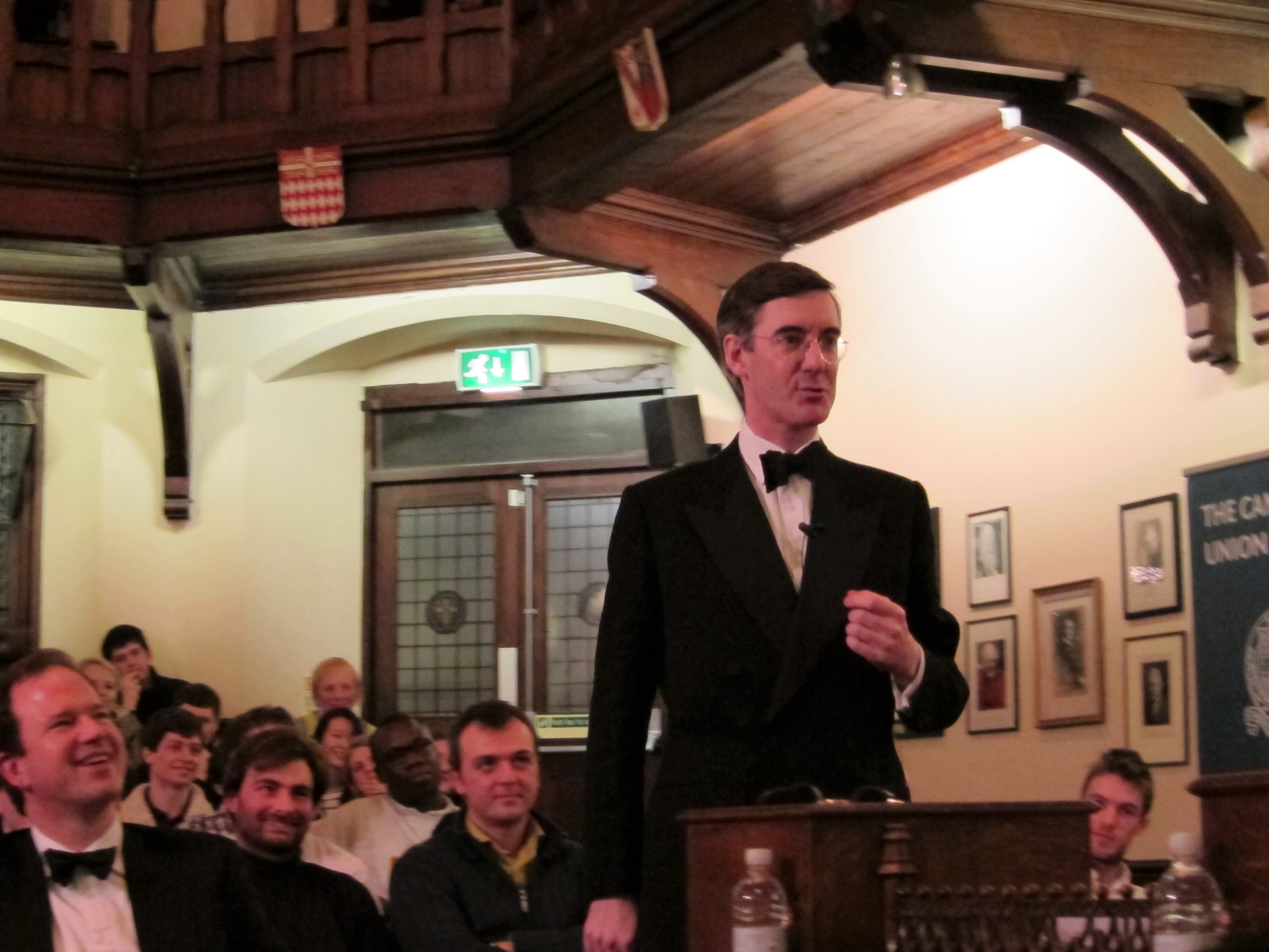 Jacob Rees-Mogg debating at the Cambridge Union Society. Coincidentally the arms behind him are of FitzWilliam College, Cambridge (which has no connection to the FitzWilliam family other than it was founded opposite the FitzWilliam Museum which houses that family's art collection) which use the arms of the FitzWilliam family. Rees-Mogg is married to the daughter and only surviving child of the wealthy daughter and heiress of Peter Wentworth-Fitzwilliam, 8th Earl Fitzwilliam (d.1948).